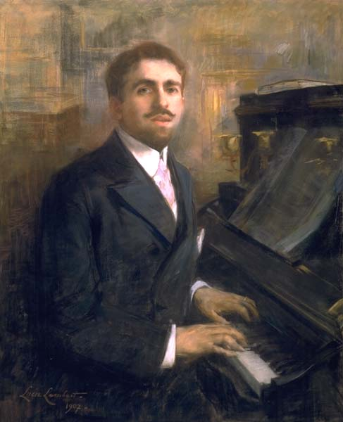 Reynaldo Hahn was a one time lover and later an intimate friend of Marcel Proust.